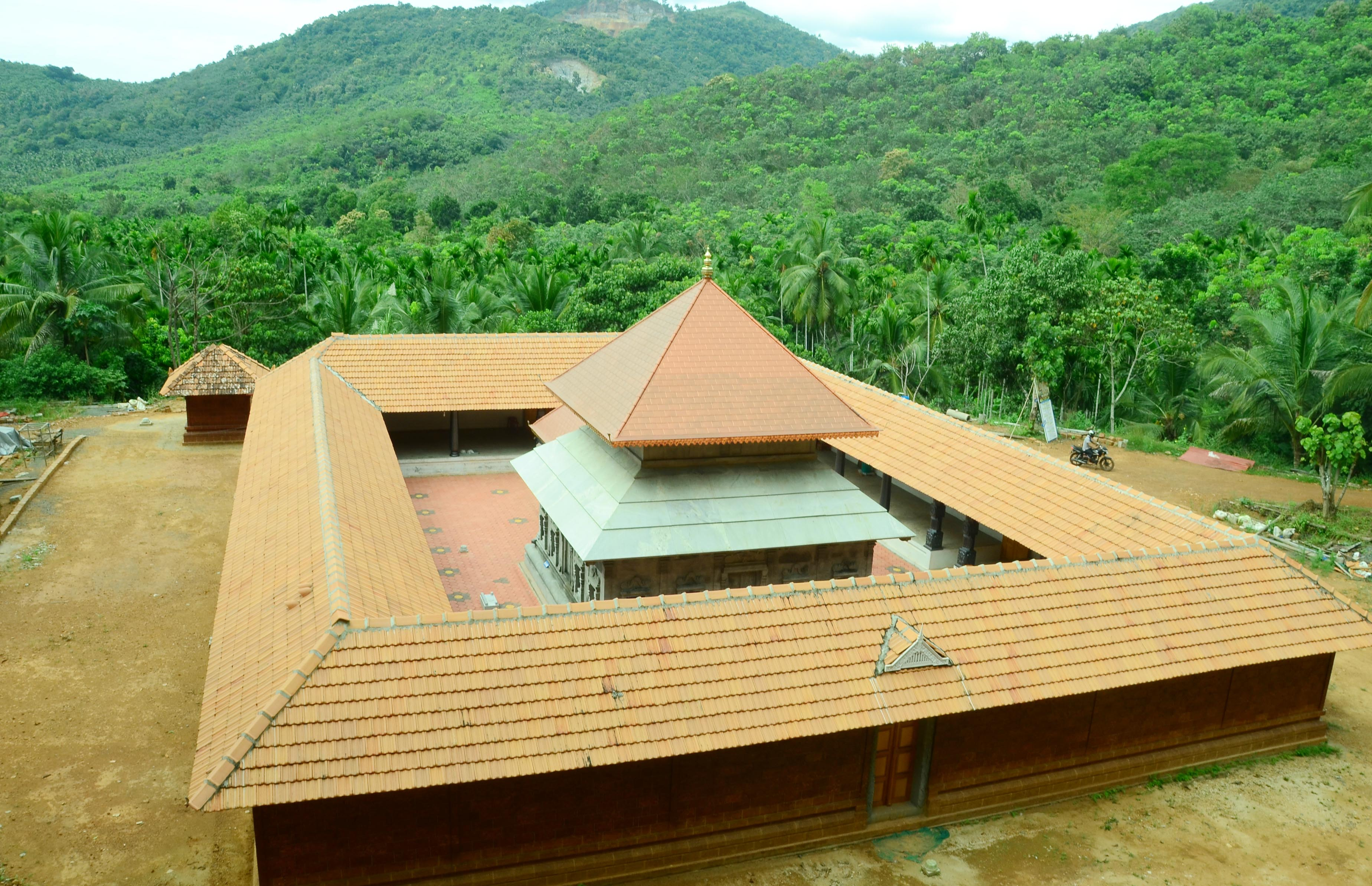 Maniyoor Shiva Temple